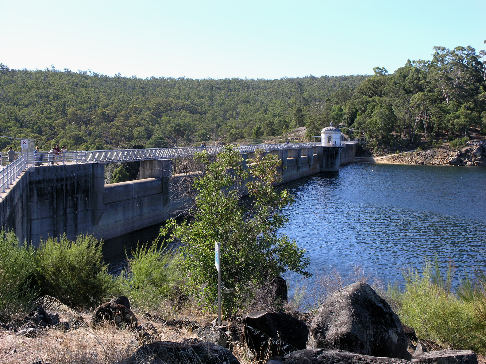 Mundaring Weir in the Darling Range, Perth, WA. Taken by me SeanMack.